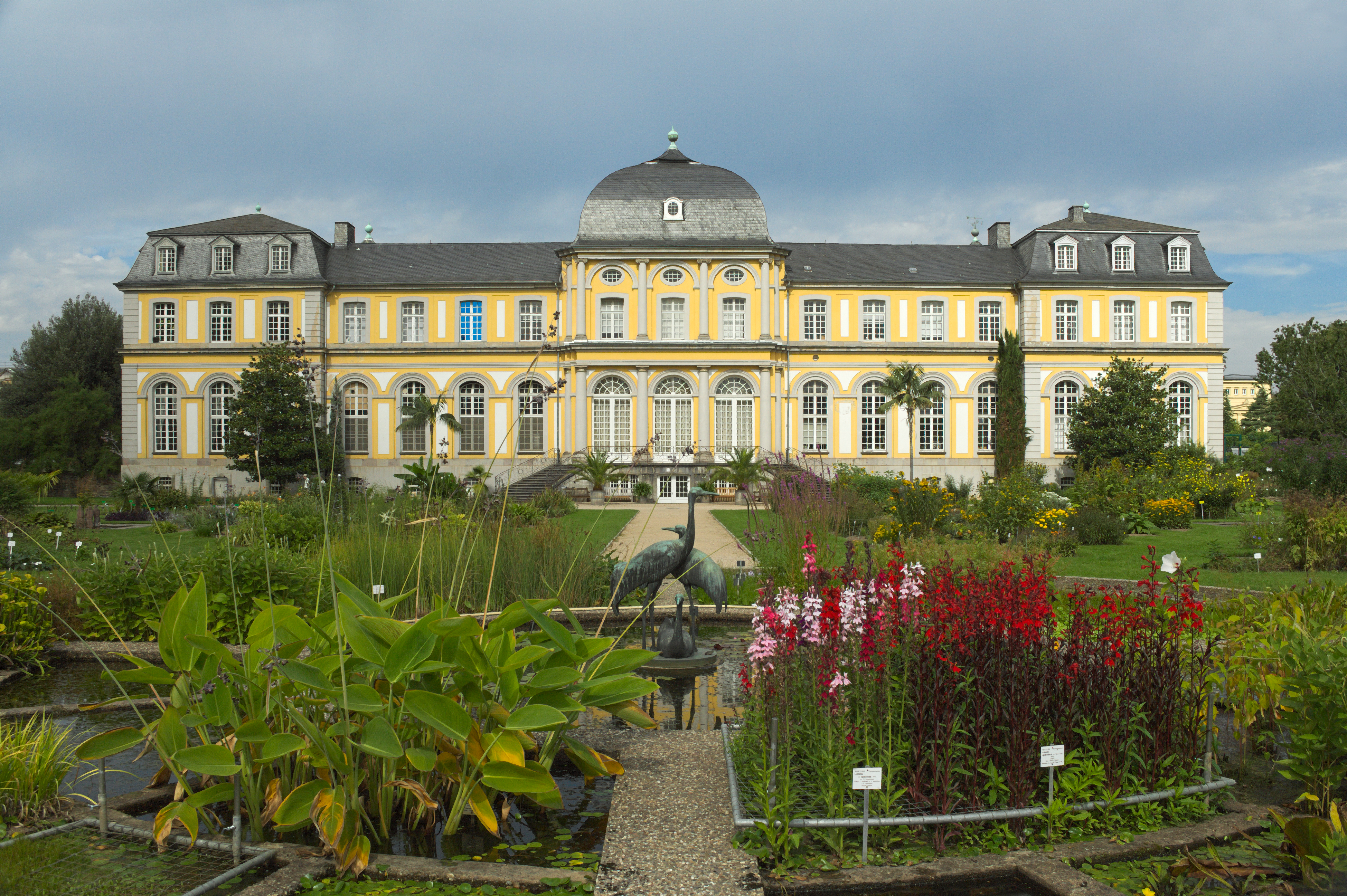 Southeast (garden) facade of Poppelsdorf Palace in Bonn, Germany Bonn; Denkmalnummer A 472This is a photograph of an architectural monument. 472